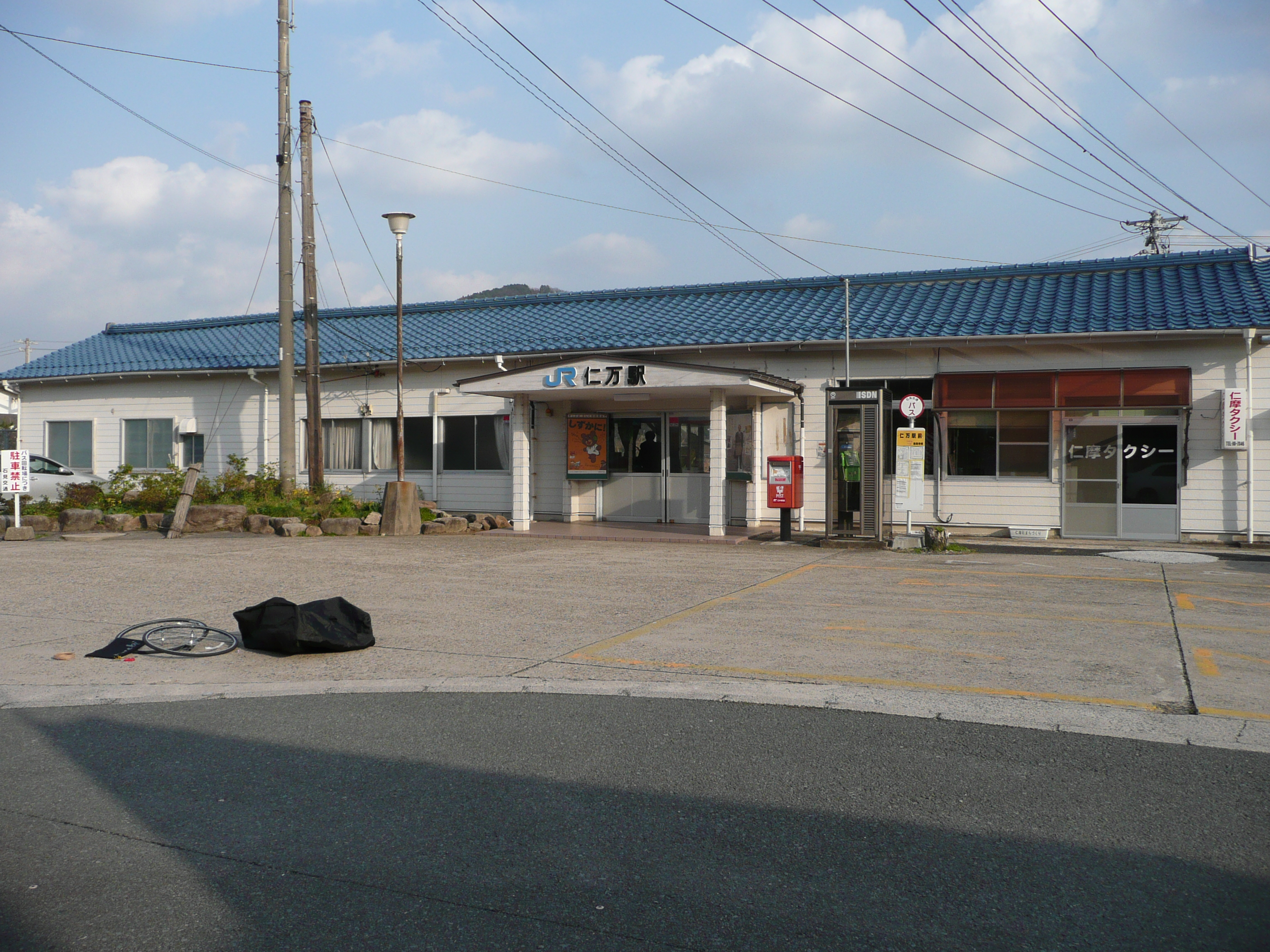 仁万駅舎